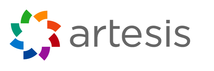 Horizontal RGB logo of Artesis University College Antwerp